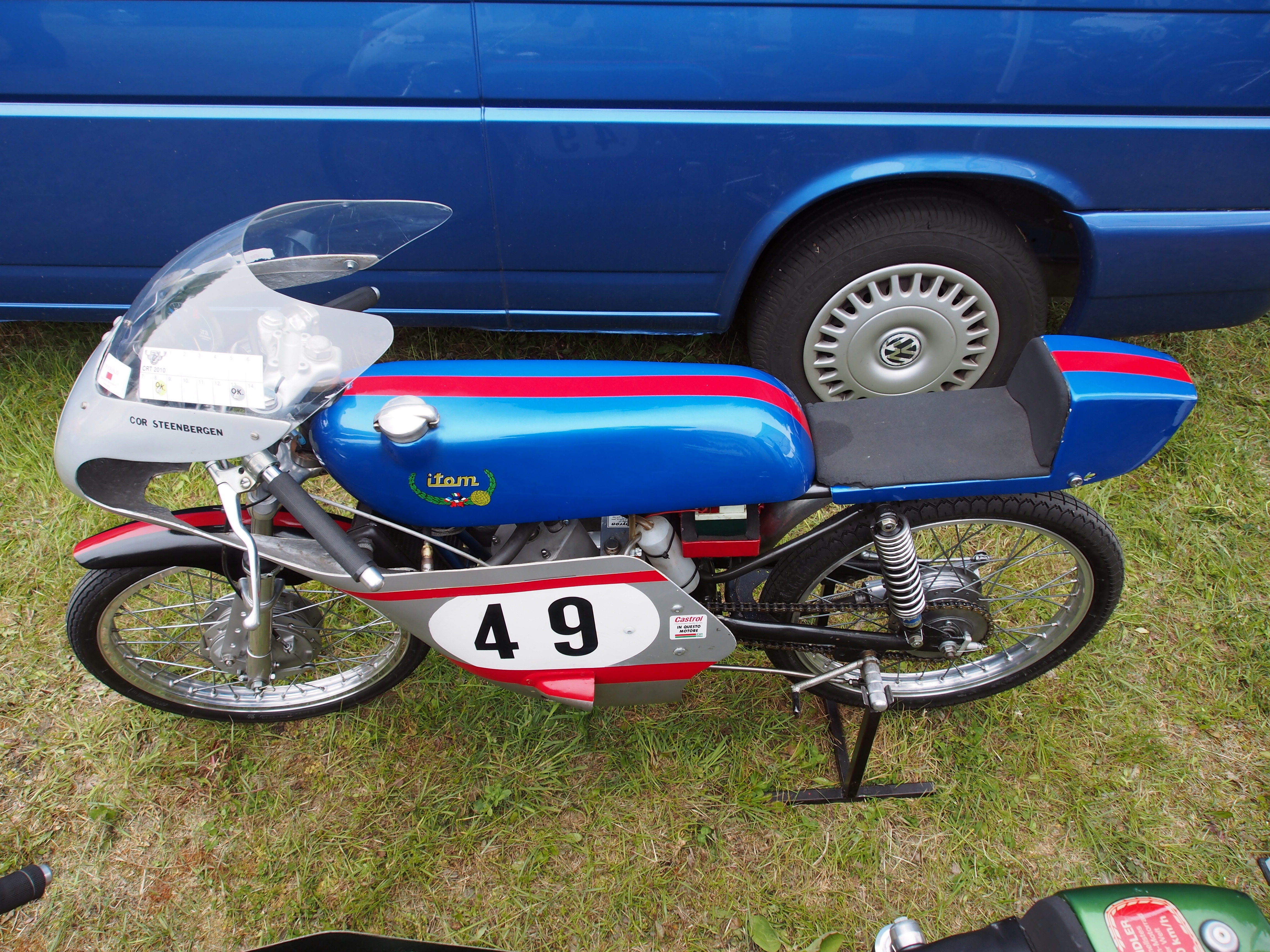 Photographed at Rockanje, The Netherlands. OLYMPUS DIGITAL CAMERA